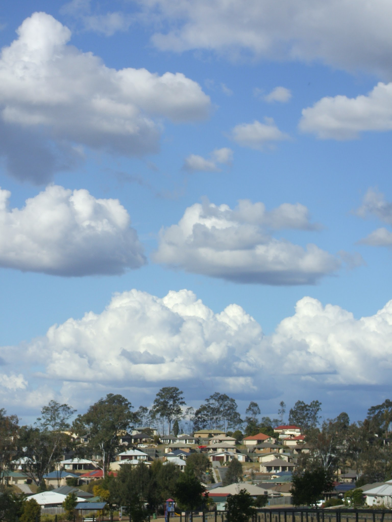 View from the west of Yamanto looking east late on a winter's afternoon.